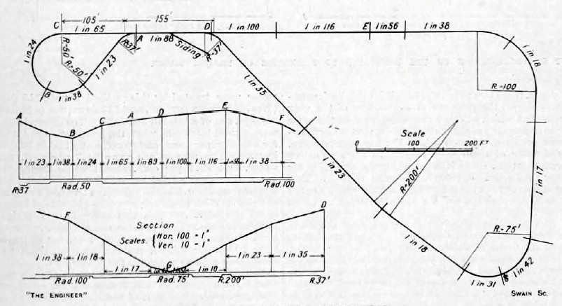 Canada Junction test track for the Dutton Road-Rail Tractor prototype demonstration